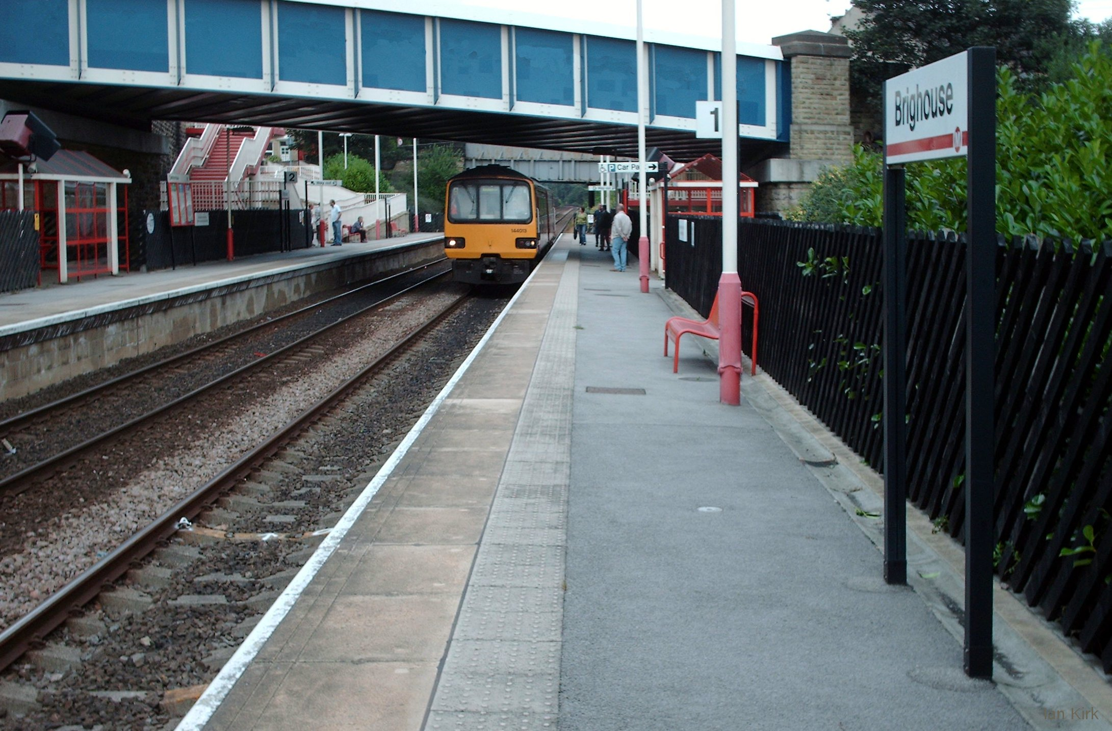 Brighouse railway station, West Yorkshire, England. DMU 144013 arriving.